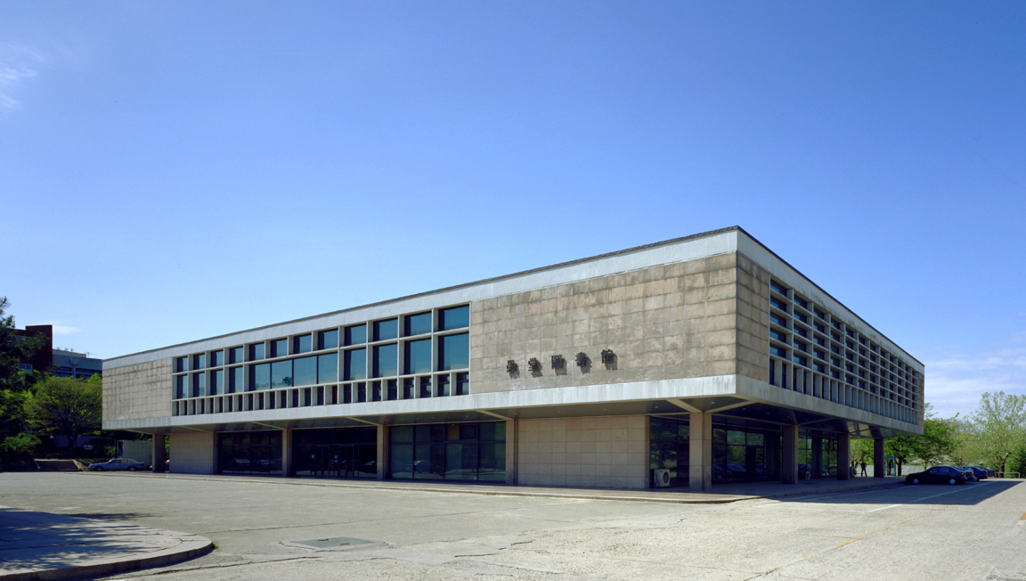 Seoul, Korea Military Academy Library, 1980-1982